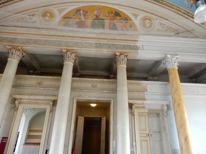 Castle Pillnitz, Hall of Pillnitz' declaration, condition in 2019